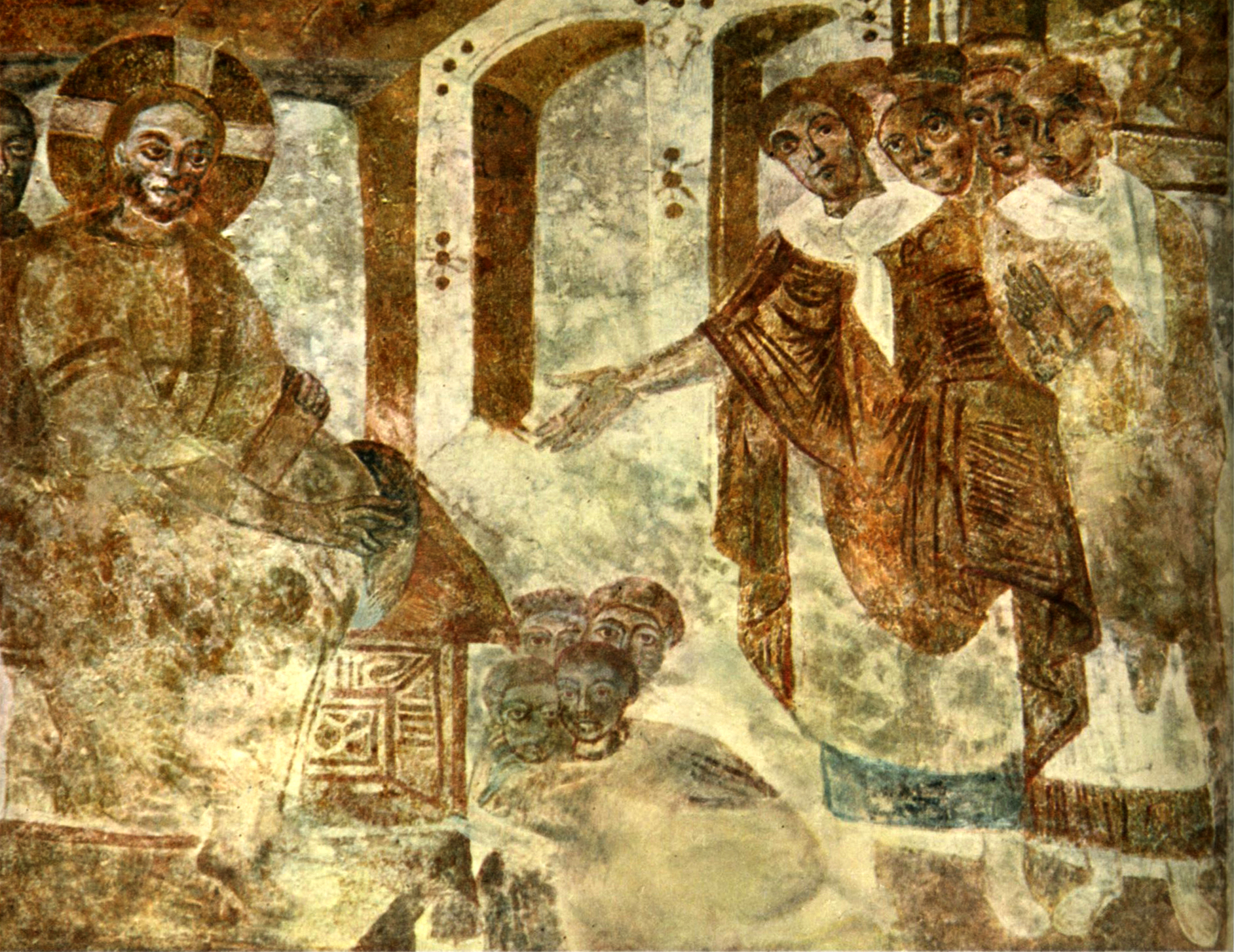 Jesus and the children. Carolingian fresco on the north wall of the nave of the Monastery Church of St. John in Müstair, Switzerland, ca. 825.